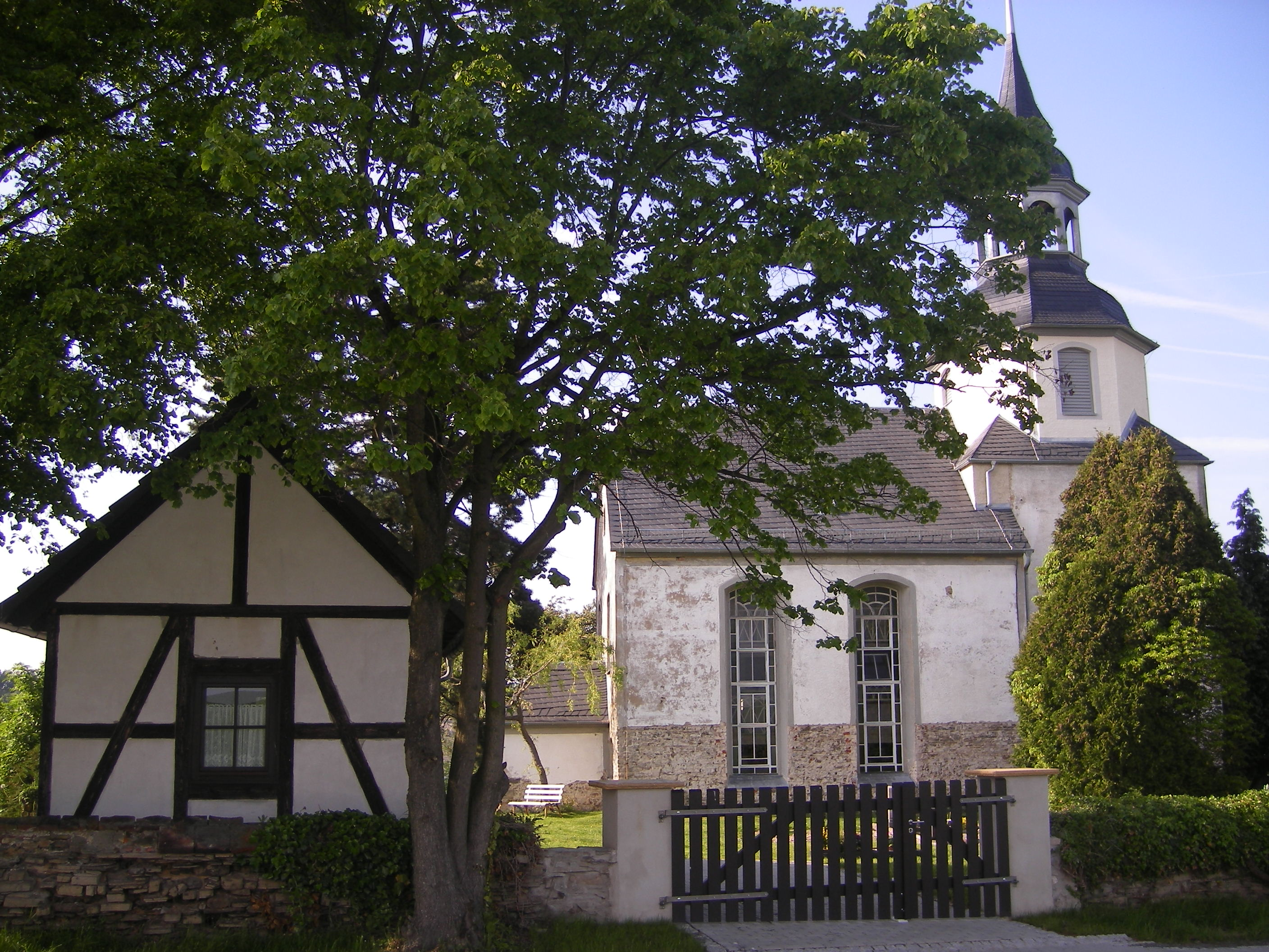 The church in Heyersdorf, near Altenburg in Thuringia, Germany.